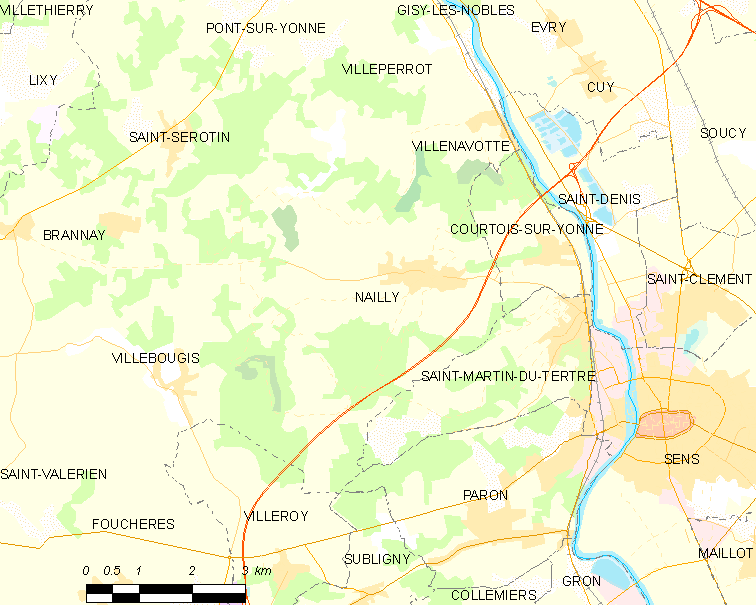 Map of French municipality Nailly